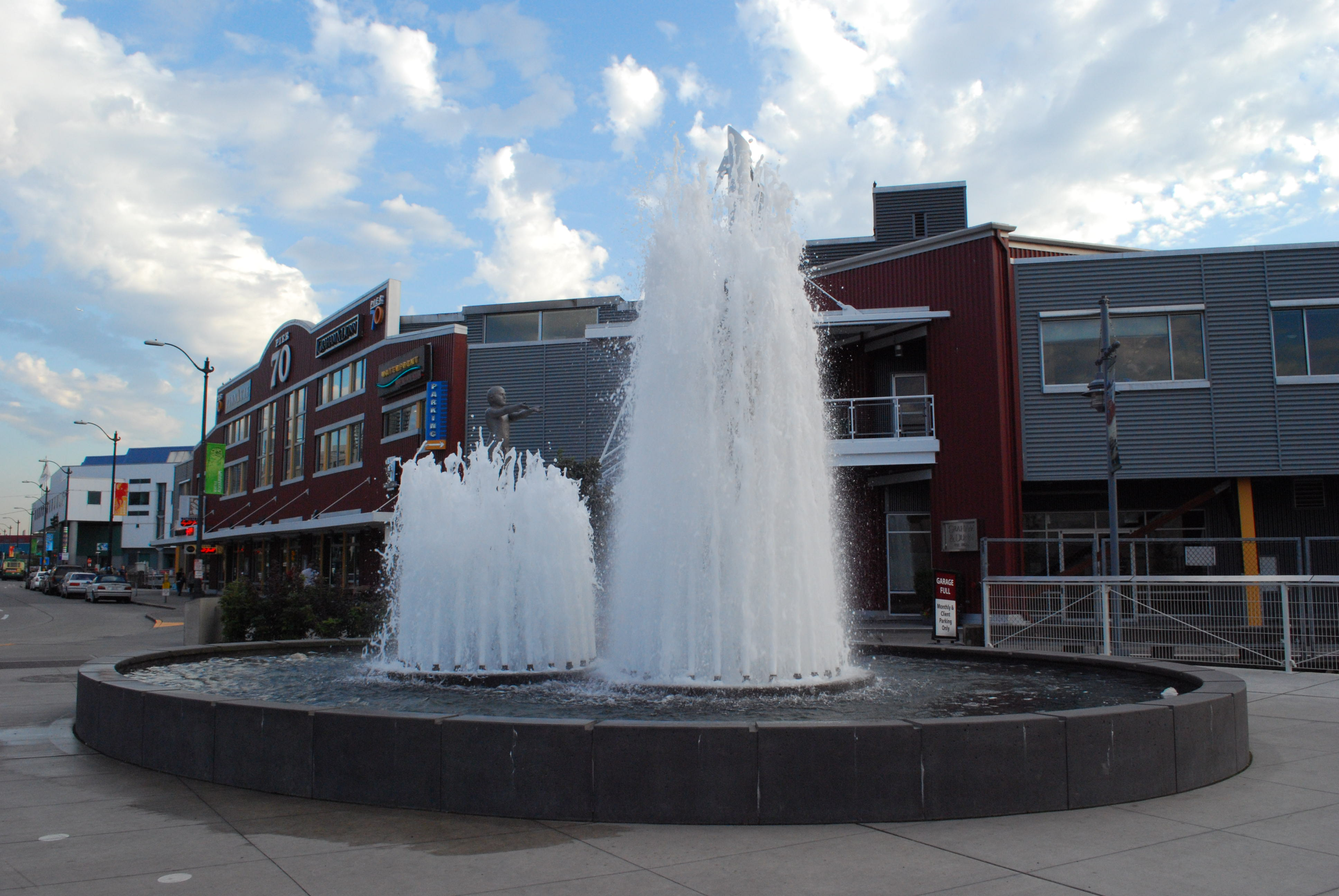 Father and Son Fountain Olympic Sculpture Park Seattle, WA 09.2008